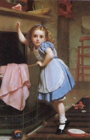 Played Out